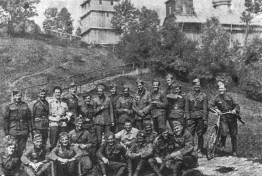 Slovak invasion of Poland (1939)